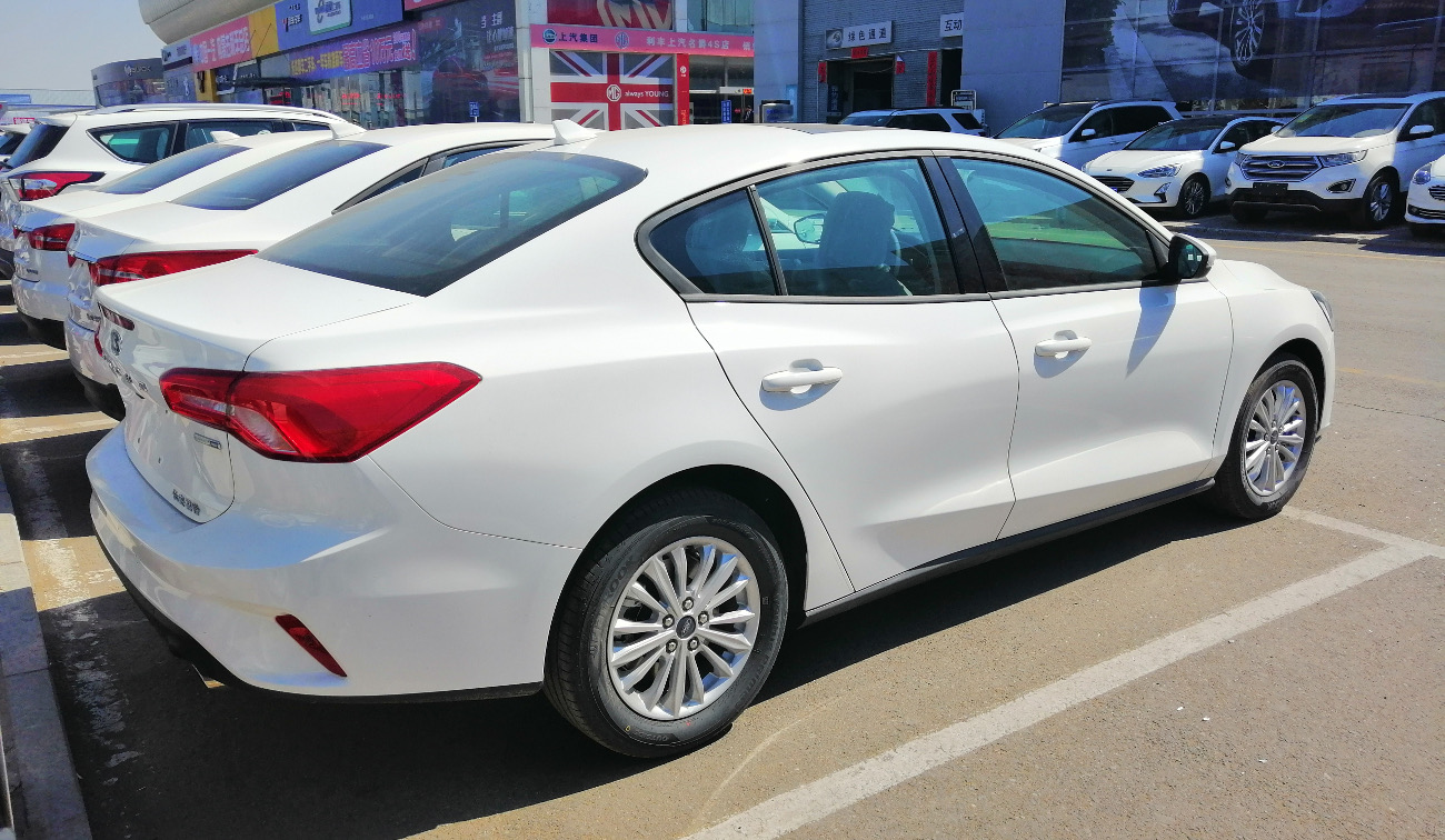 Ford Focus IV sedan photographed in Hohhot, Inner Mongolia autonomous region, China.